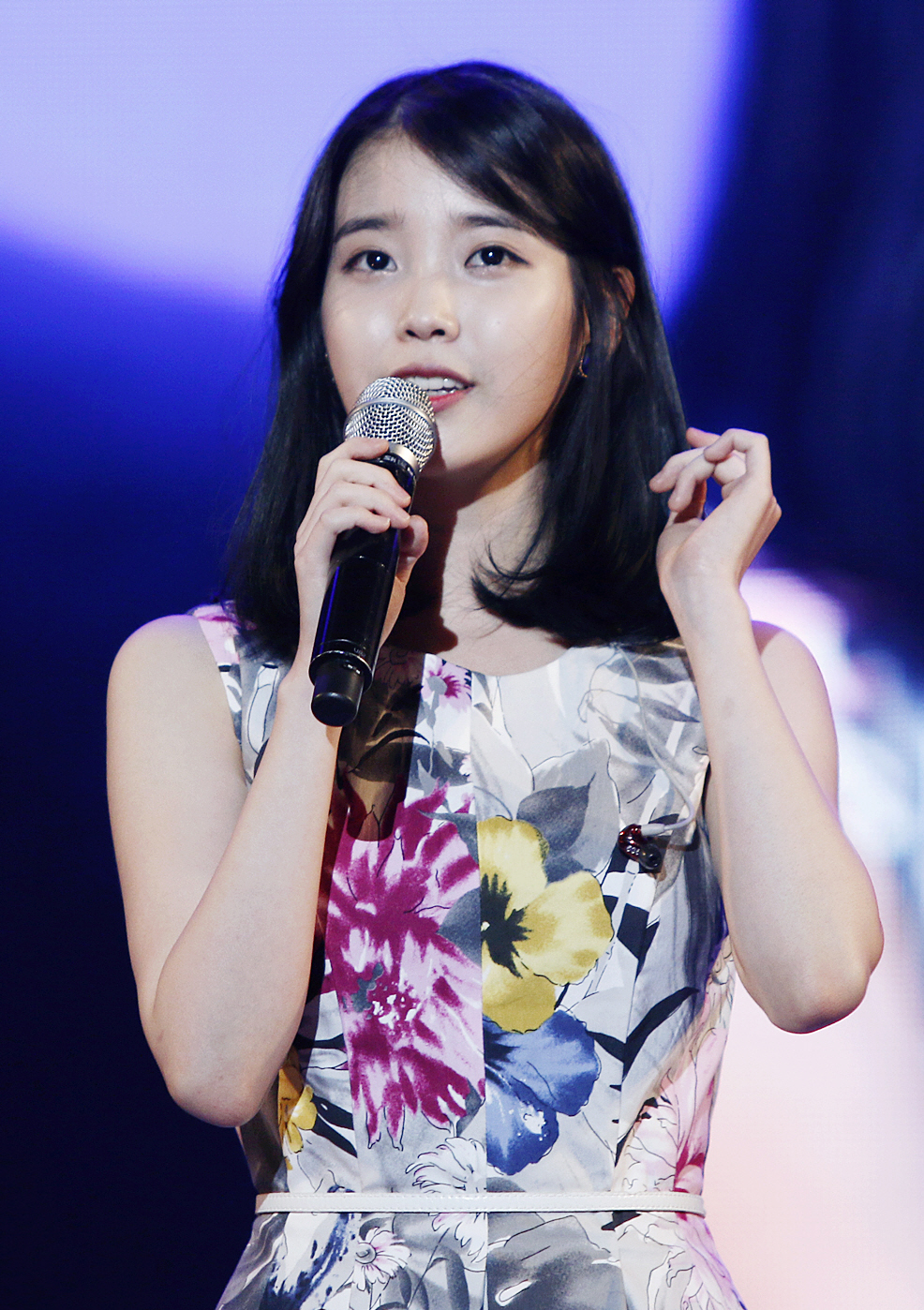 IU at the Yonsei University Akaraka Festival, 22 June 2014